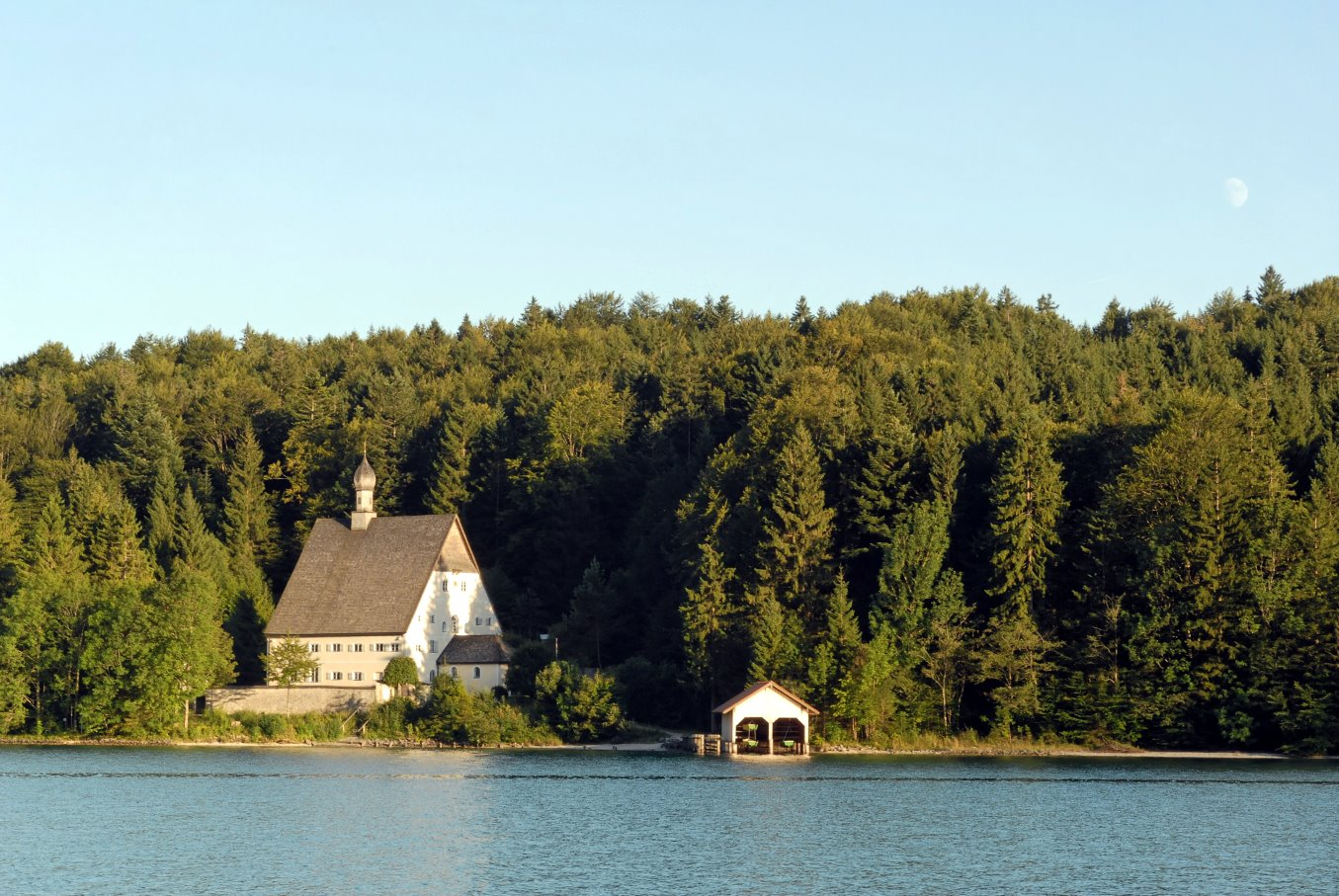 Lake Walchensee (2,627 ft), chapell St. Anna in former monastery "Klösterl"